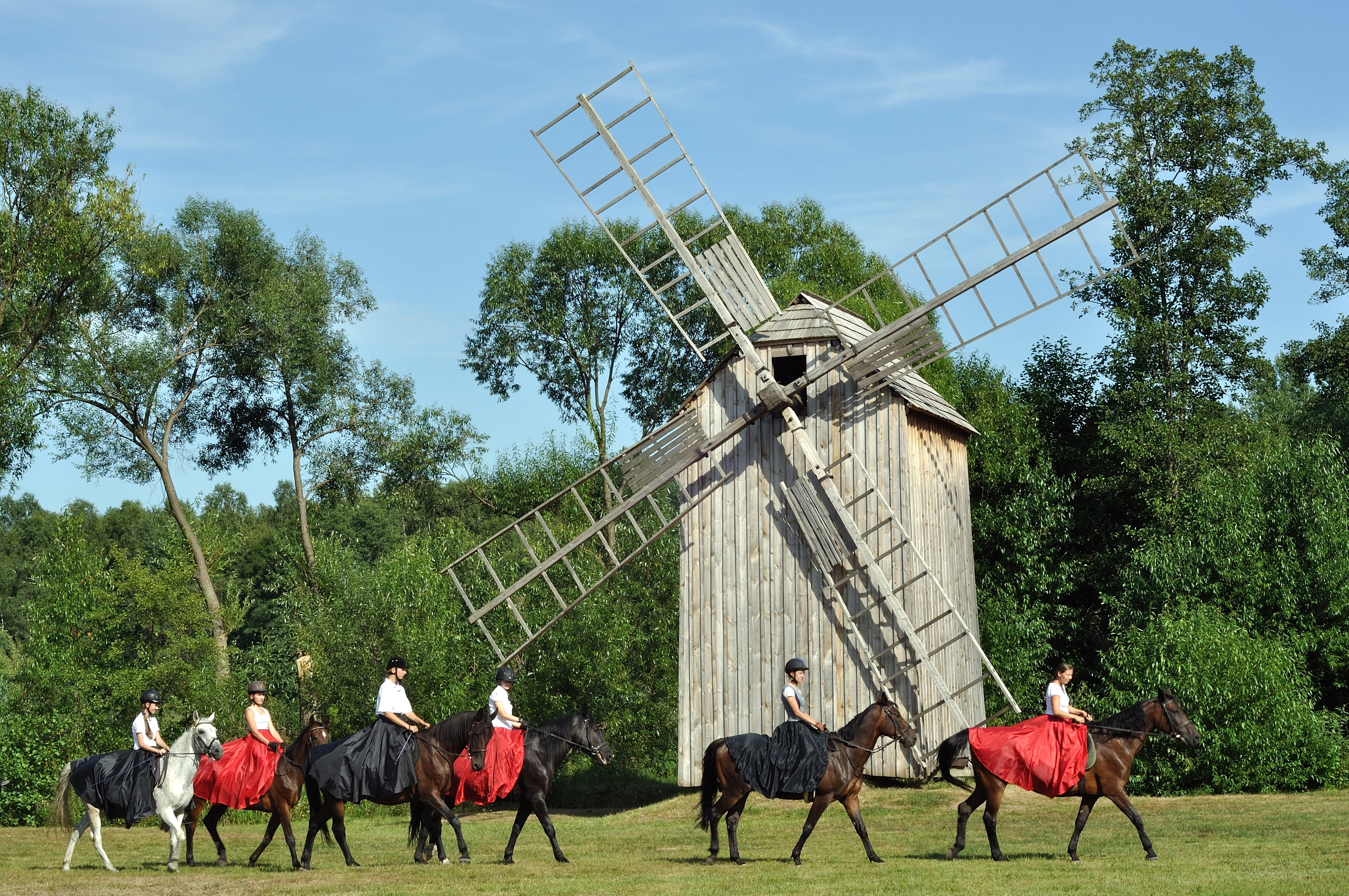 Horse parade in Museum of Folk Culture in Kolbuszowa